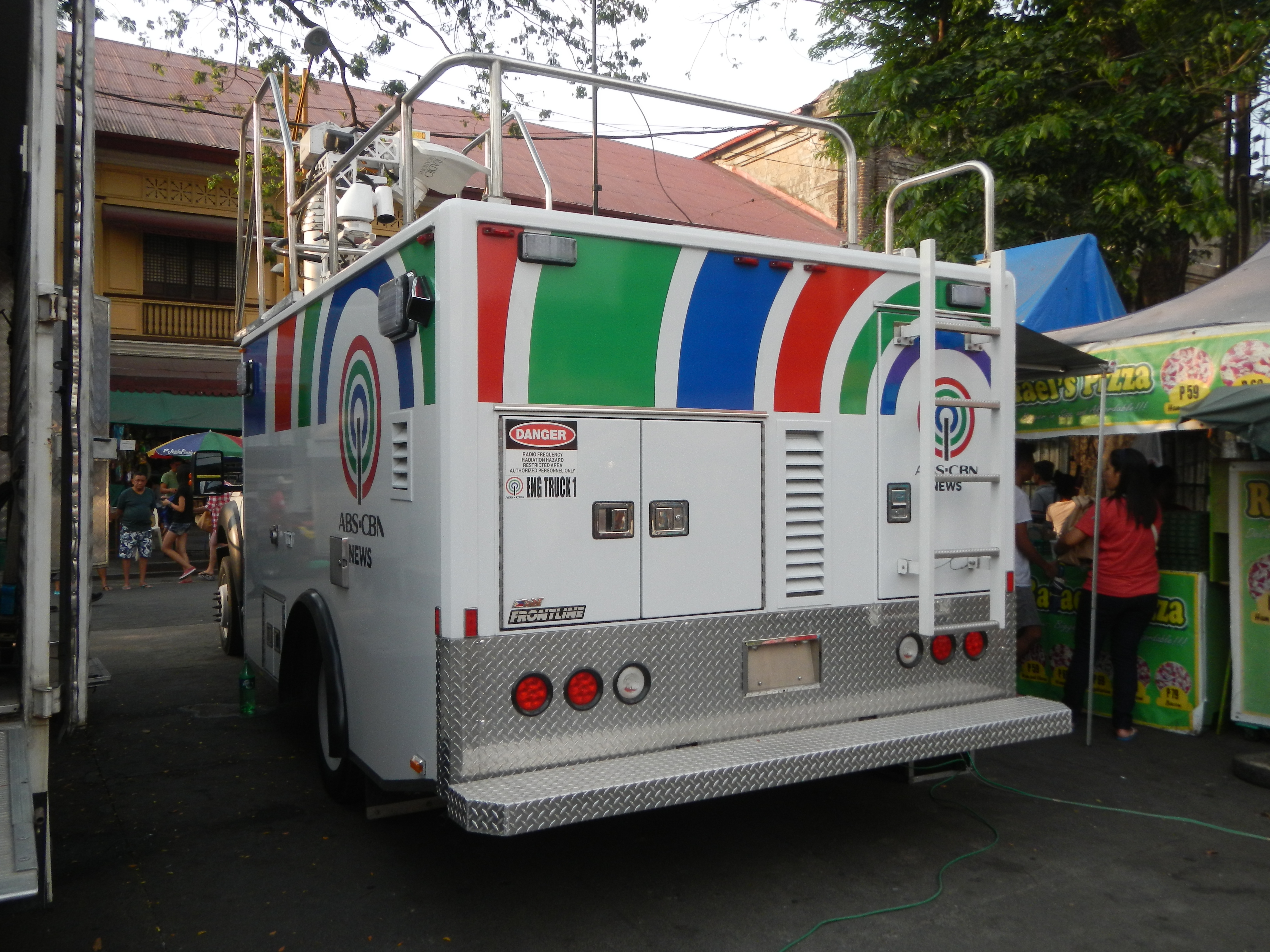 Holy Week in the Philippines, Holy Wednesday and Good Friday, Good Friday processions in Baliuag, 2016 in St. Augustine Parish Church of Baliuag Saint Augustine Parish Church (Baliuag) Barangay Poblacion, Baliuag, Bulacan, Bulacan (accessed from Maharlika Highway (Cagayan Valley Road, Baliuag-Pulilan-Guiguinto, Bulacan) Pan-Philippine Highway, also known as the Maharlika "Nobility/freeman" Highway or Asian Highway 26, Cagayan Valley Road).